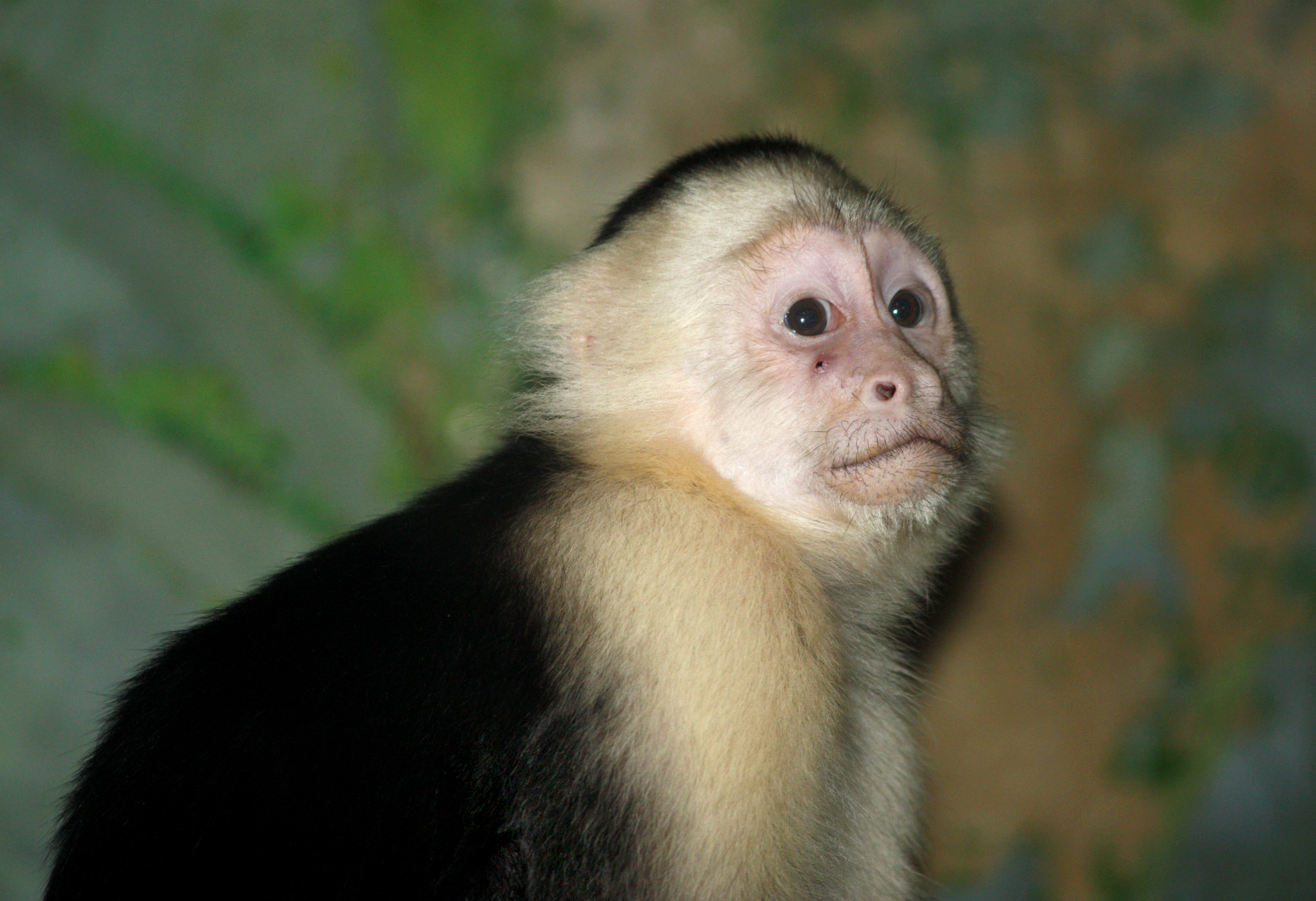 White-throated Capuchin (Cebus capucinus). Bronx Zoo, New York City.